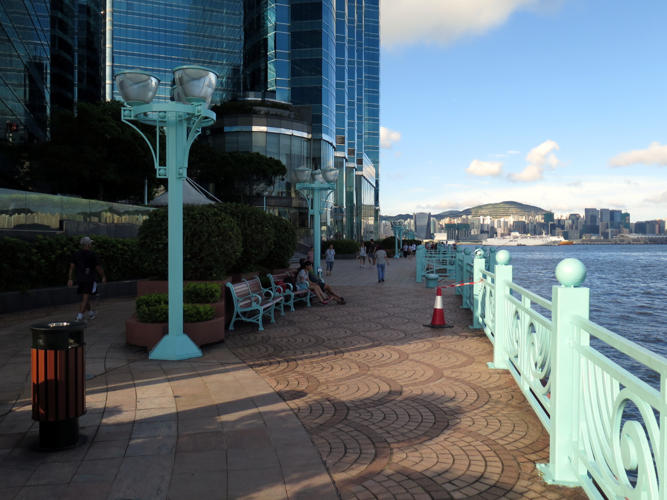 Hung Hum Harbourfront Promenade